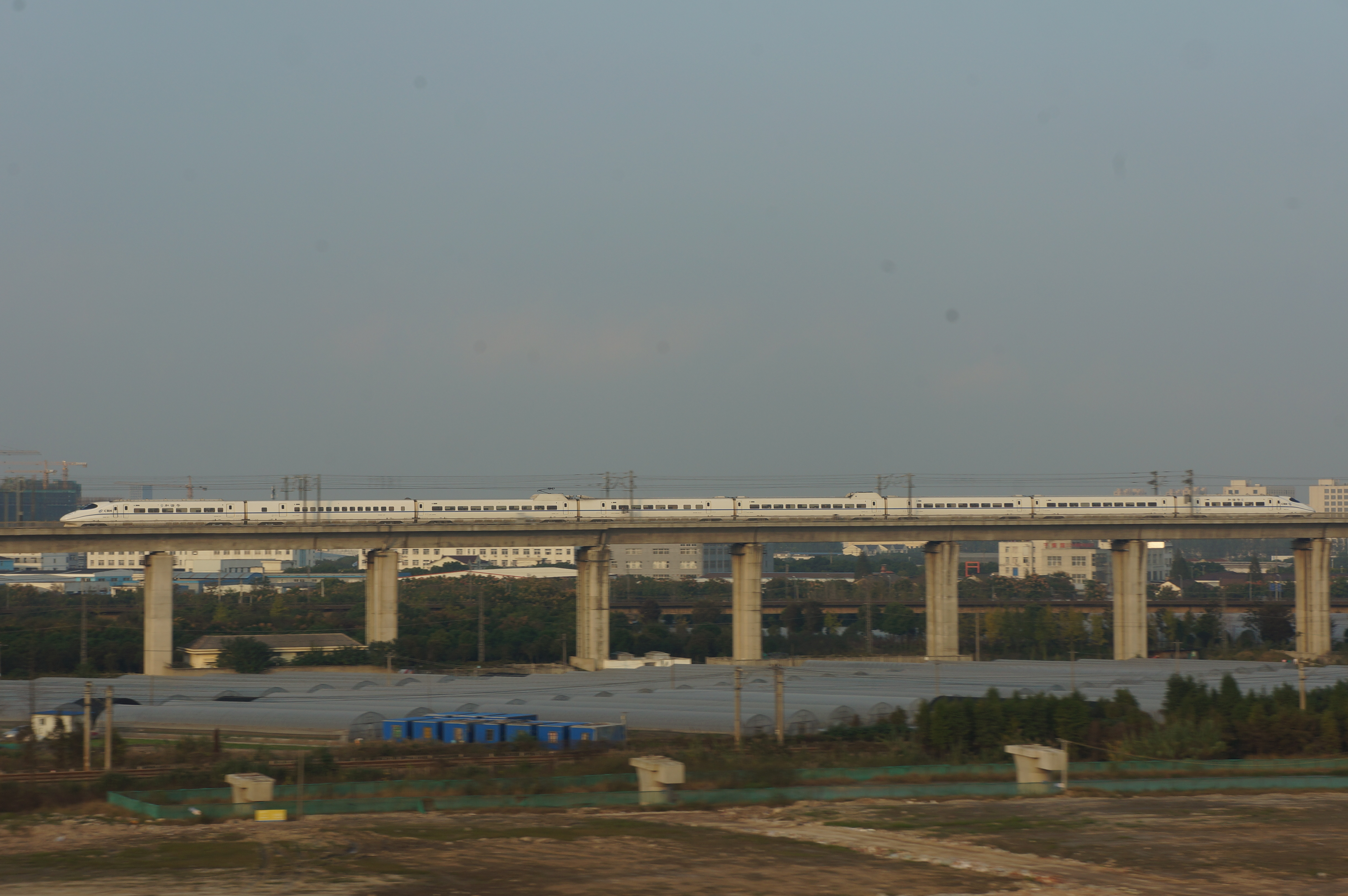 201611 CRH2C in Nanxiang, taken from G1822.